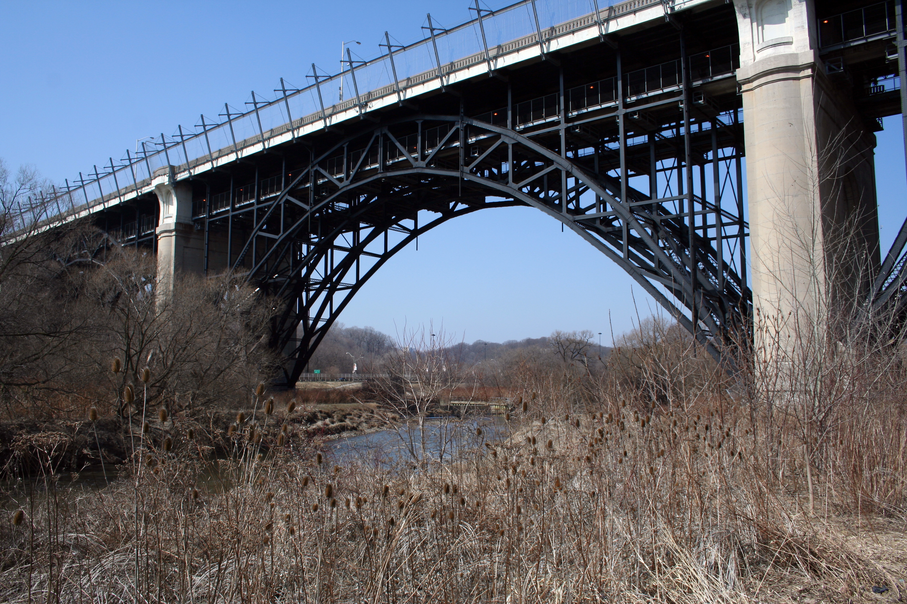 The Prince Edward Viaduct is better known to Torontonians as the Bloor Viaduct.